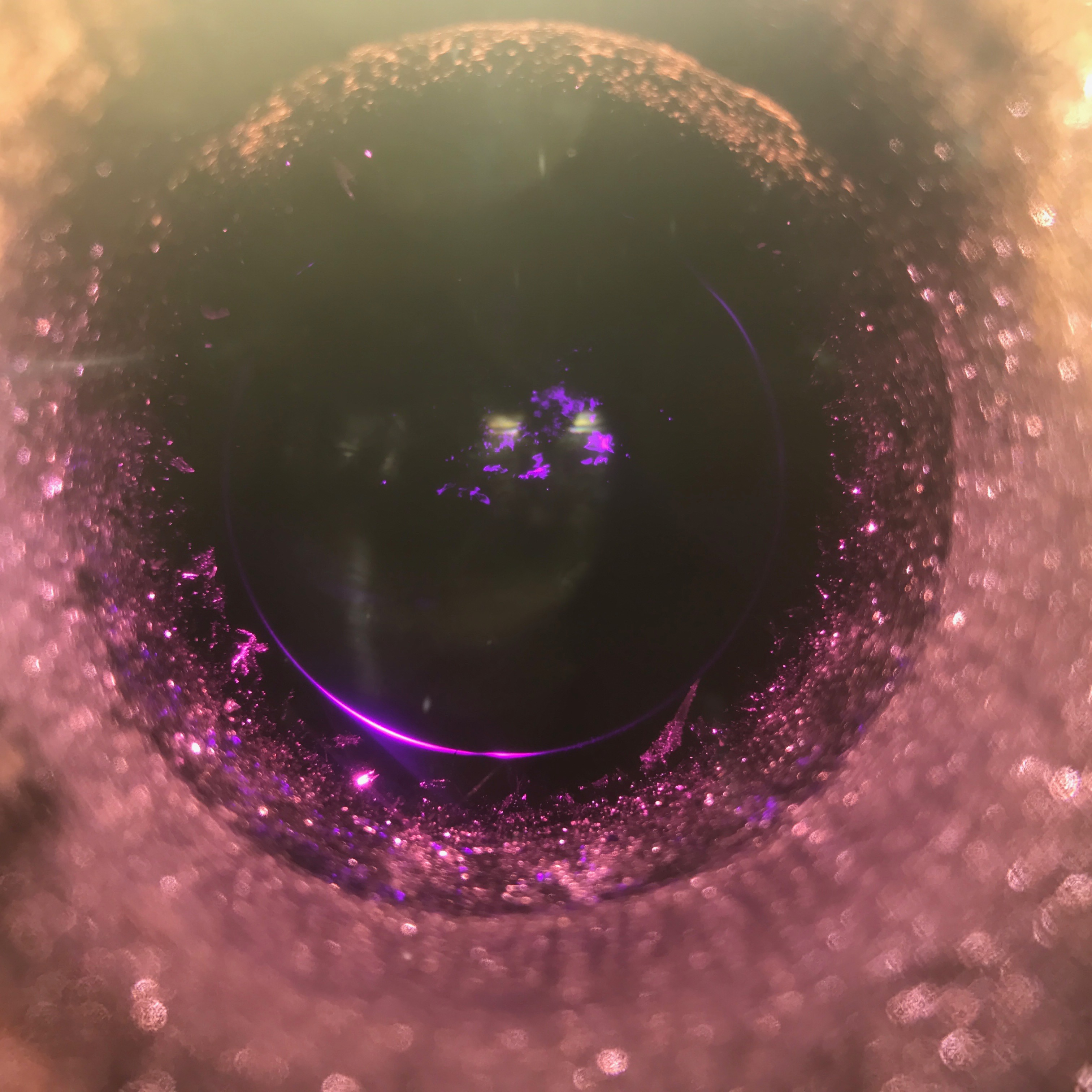 Liquid iodine on the bottom of a beaker